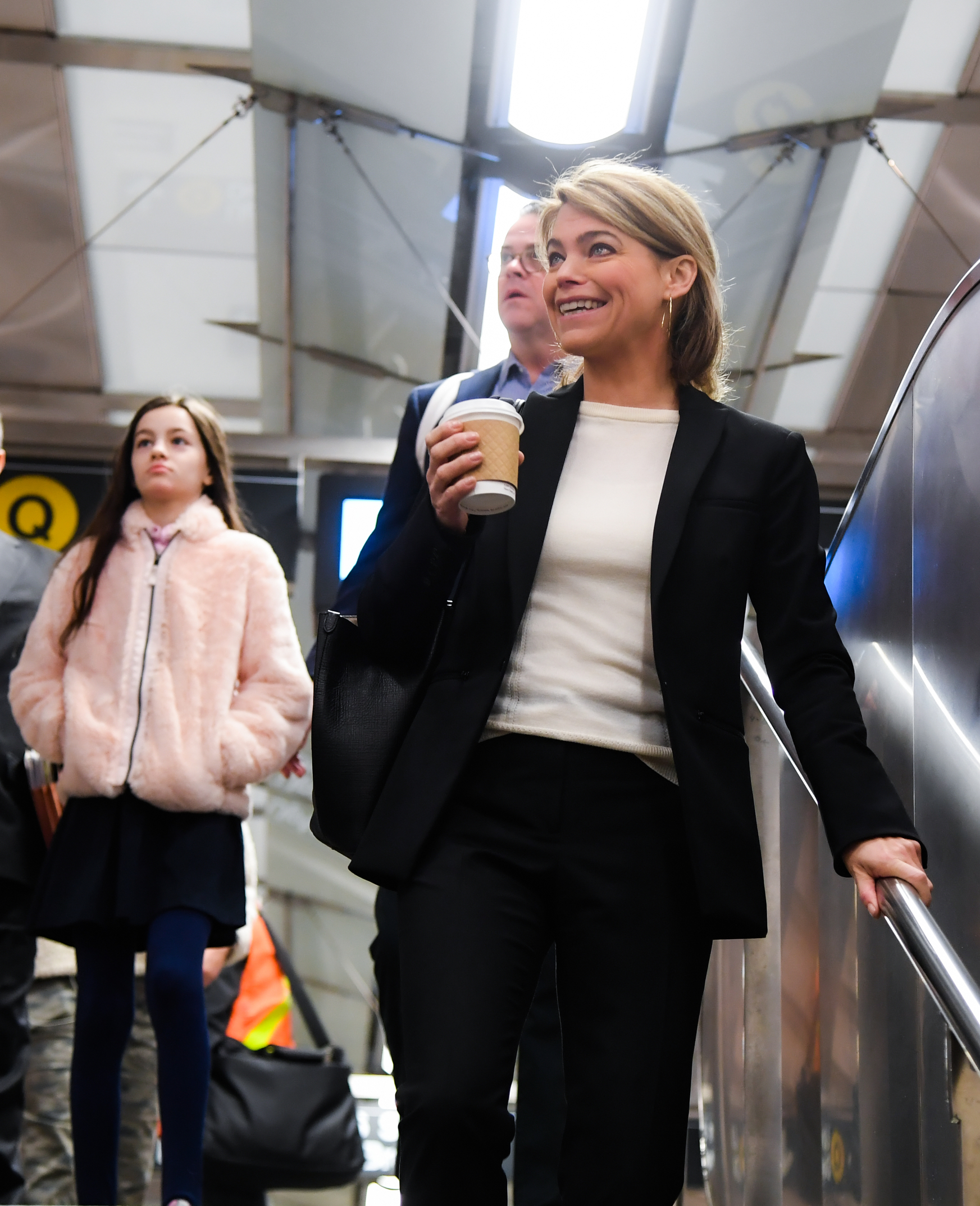 Interim MTA New York City Transit President Sarah Feinberg rides to Headquarters on Mon., March 9, 2020, her first official day on the job.